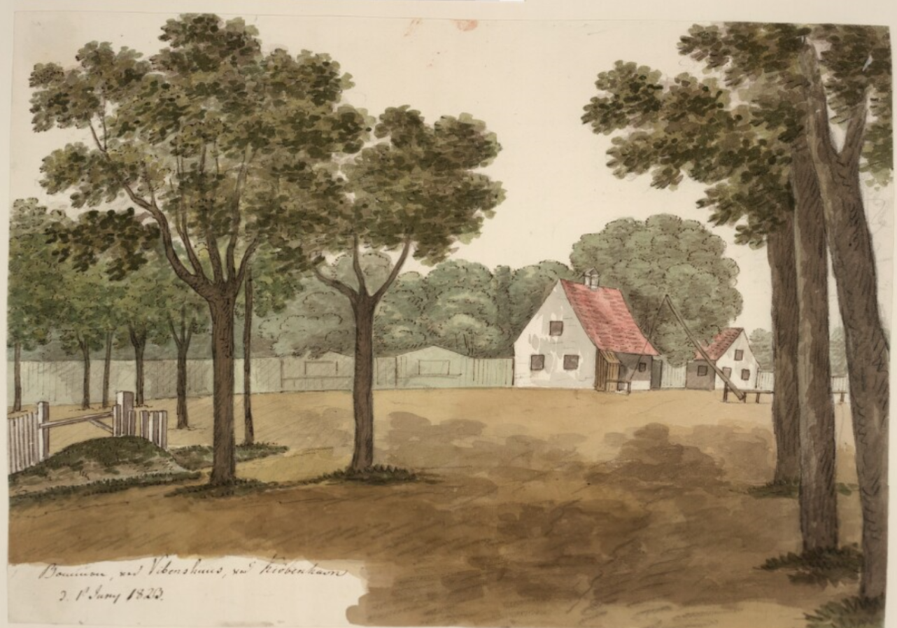 Bommen, ved Vibenshuus, ved Kiöbenhavn d. 1. Juny 1823